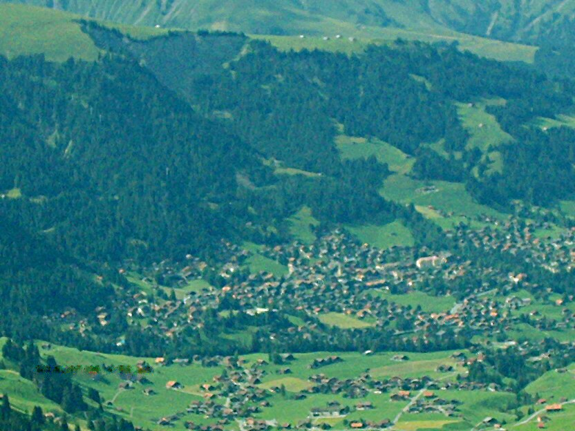 Schutzwald in den Steilhängen oberhalb von Adelboden Forests protecting Adelboden from Avalanches Photo taken July 2006 by Irmgard Photo taken from Engstligenalp. Colors and Sharpness improved with GIMP.